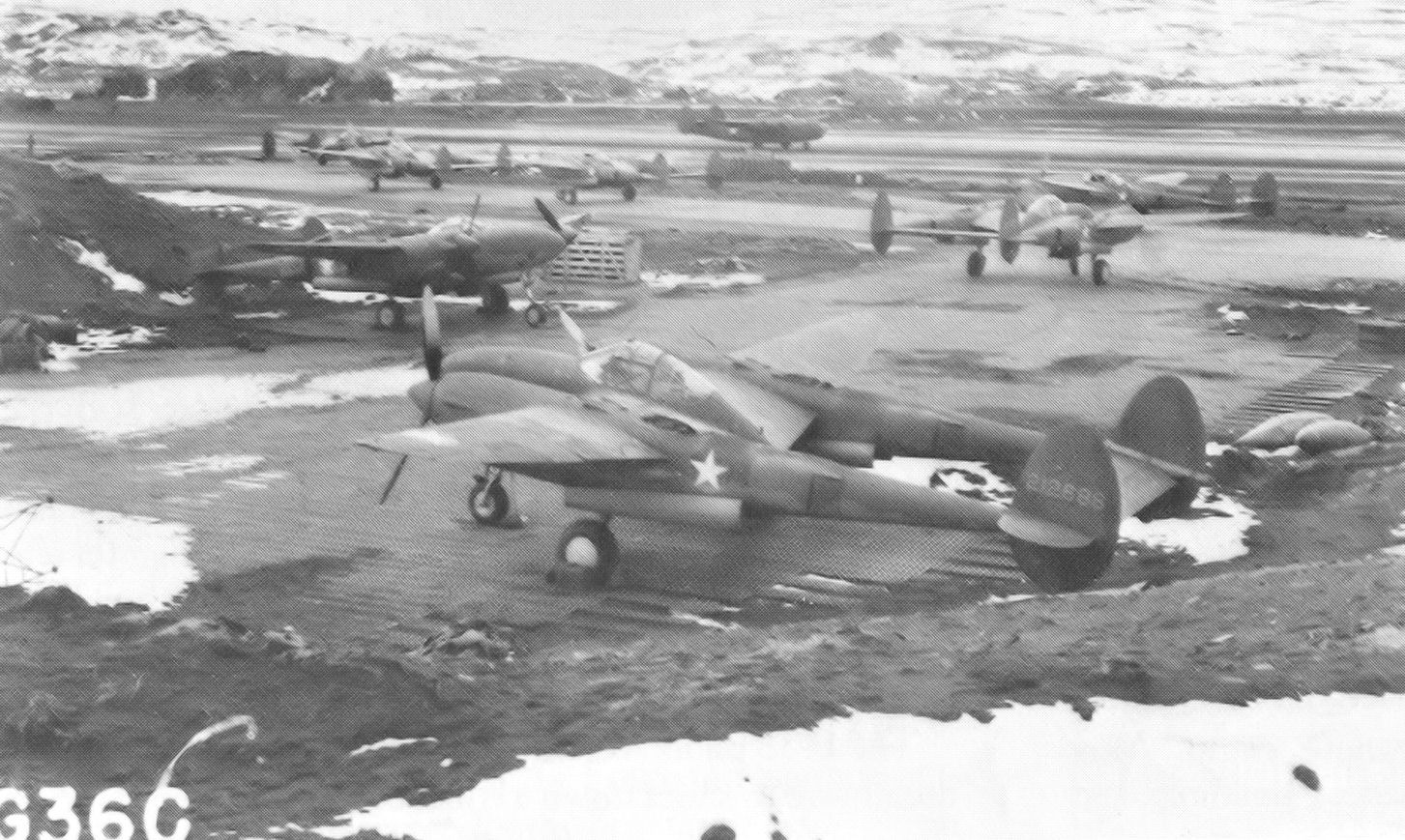 54th Fighter Squadron P-38s Adak Alaska